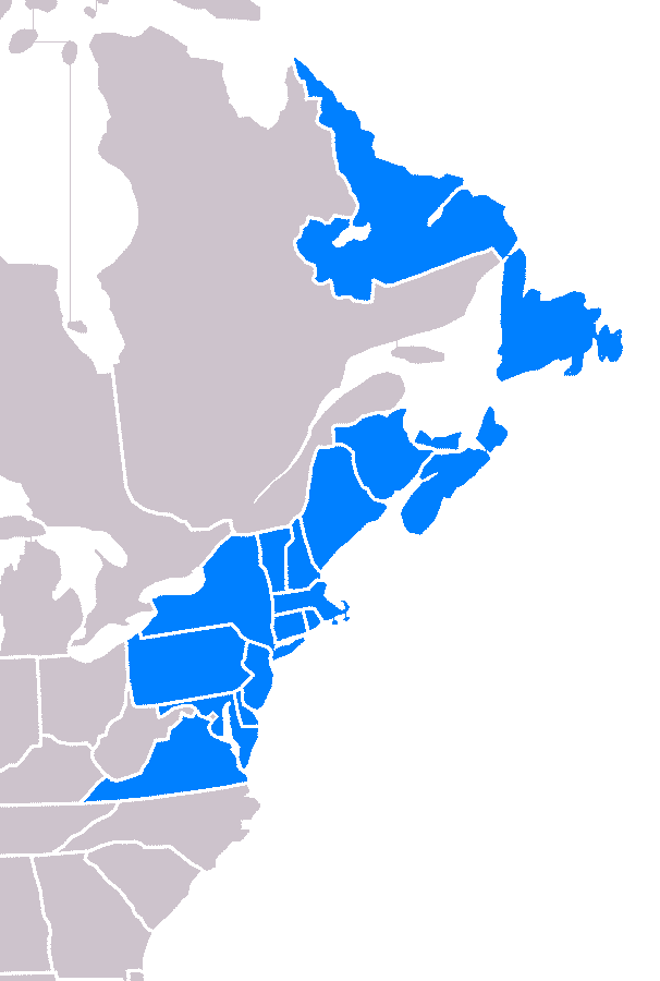 A map of areas affected by the North American blizzard of 2006.